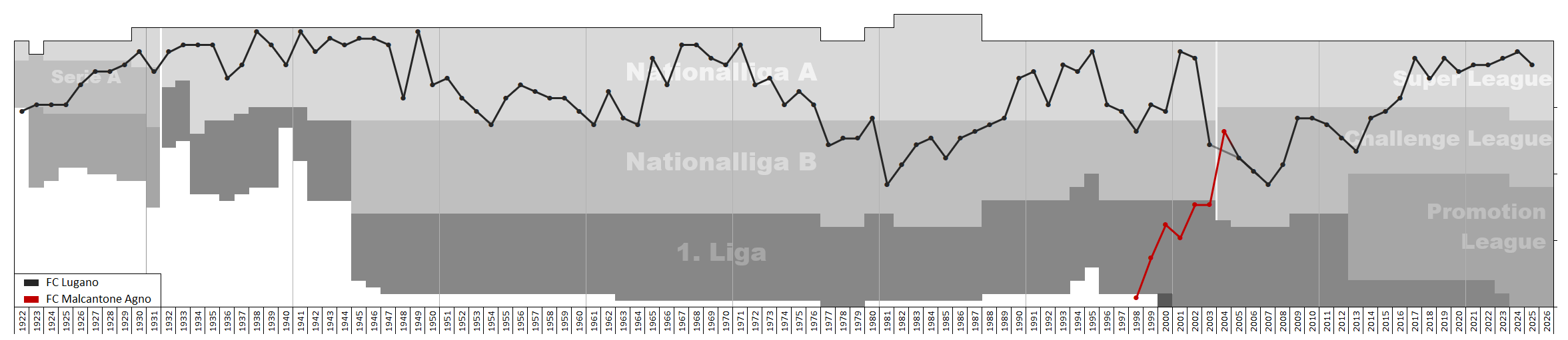 Chart of end-season table positions for FC Lugano in the Swiss football league system. Data source: RSSSF